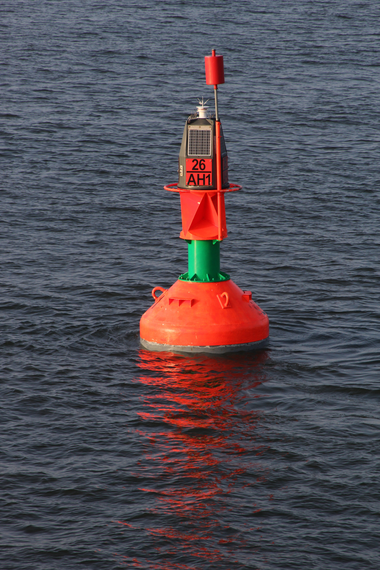 Lateral mark 26 AH 1 (red-green-red) near the island of Amrum, North Sea, Germany.